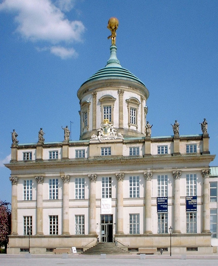 Old town hall in Potsdam, Germany